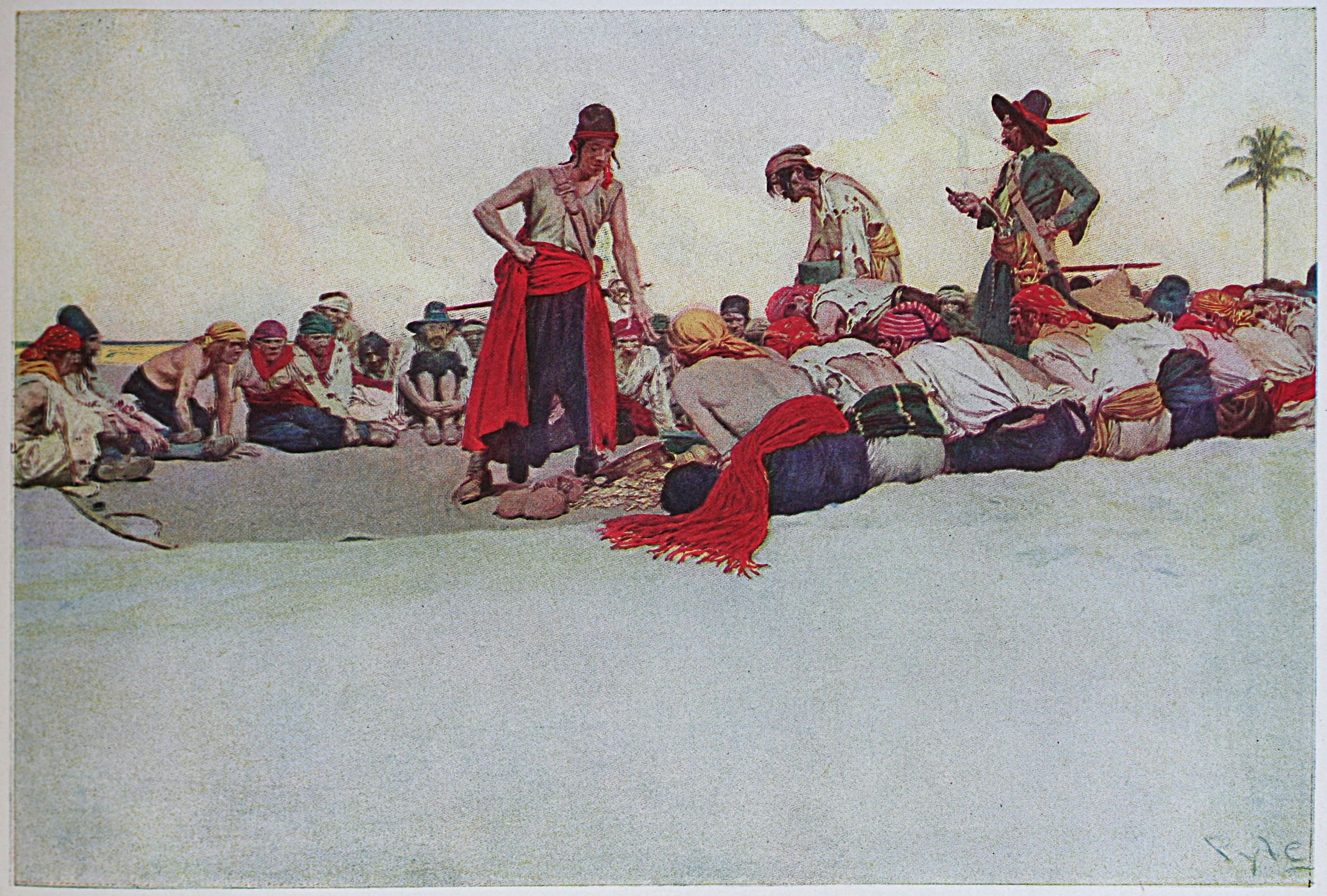 Howard Pyle illustration of pirates dividing the loot, from Howard Pyle's Book of Pirates.